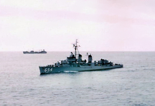 The U.S. Navy Fletcher-class destroyer USS Bearss (DD-654) in the Mediterranean Sea. The photo was taken from the aircraft carrier USS Franklin D. Roosevelt (CVA-42) during her deployment to the Med from 12 July 1957 to 5 March 1958.